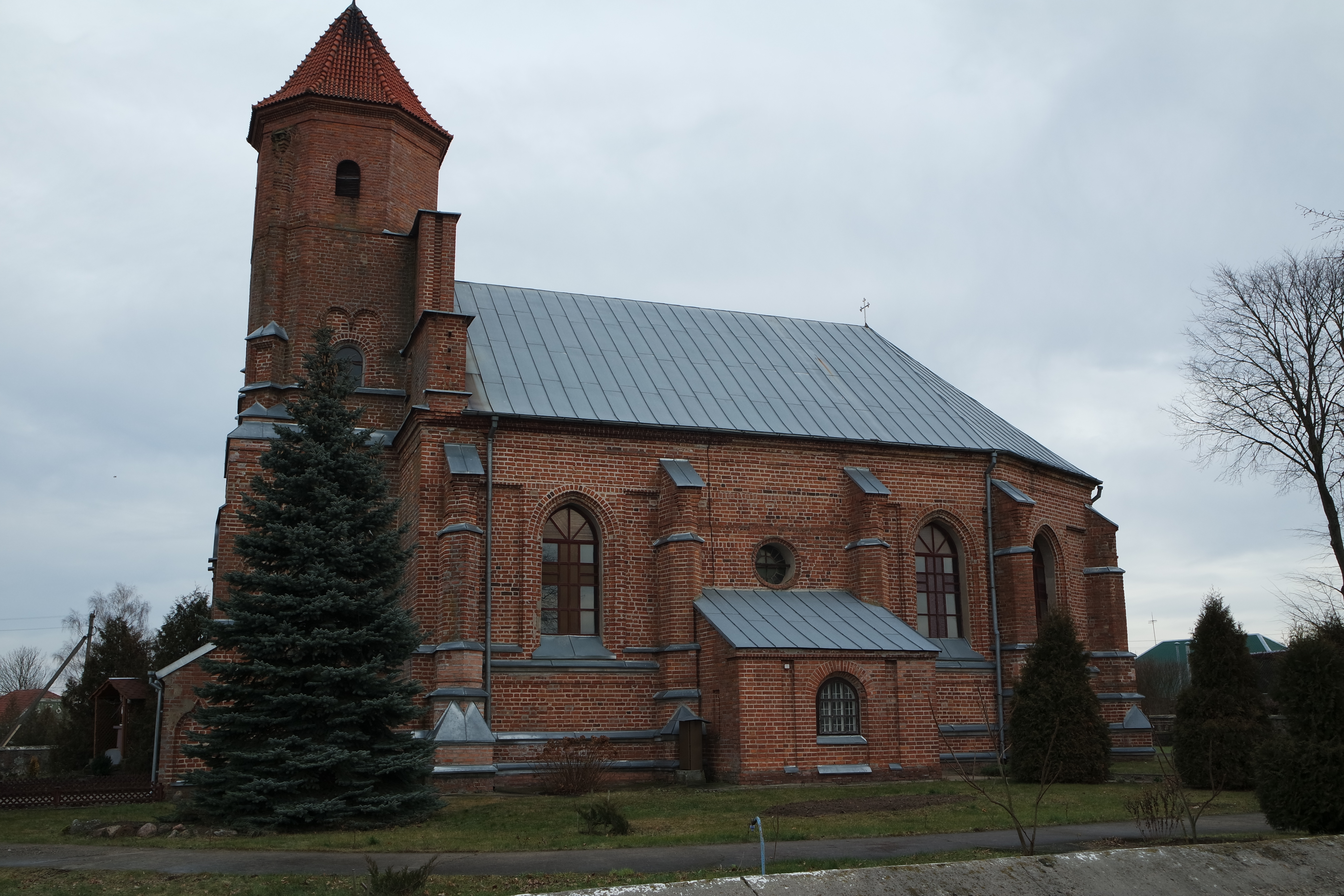 Southern side. Church of Saint Michael Archangel. Hniezna, Belarus. Беларуская (тарашкевіца): Паўднёвы бок. Касьцёл Сьвятога Міхала Арханёла. Гнезна, Беларусь.